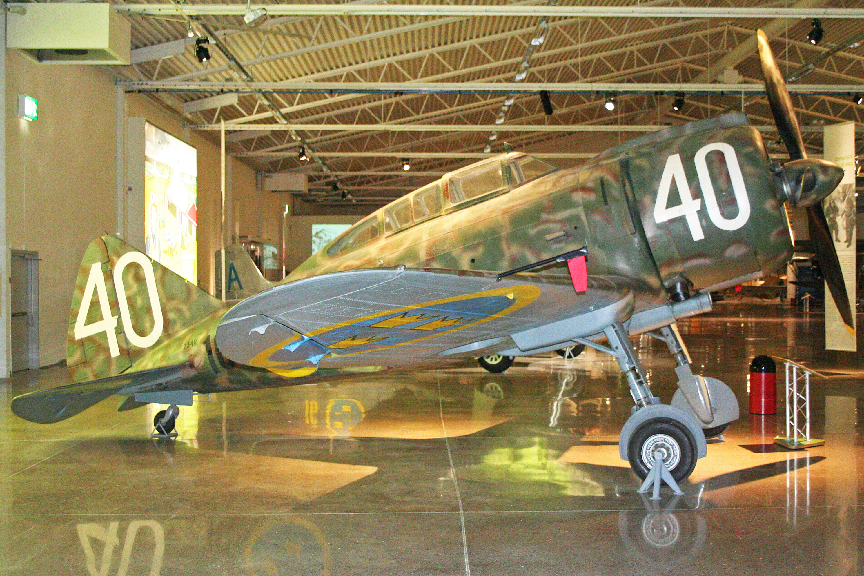 Sweden bought 60 Re.2000 Serie I fighters in 1941, mainly because no other country was prepared to sell fighters to a neutral country. The type was unreliable and required a lot of maintenance time, but was liked by its pilots. msn 405. Flyvapenmuseum, Malmen, Sweden. 04-6-2012